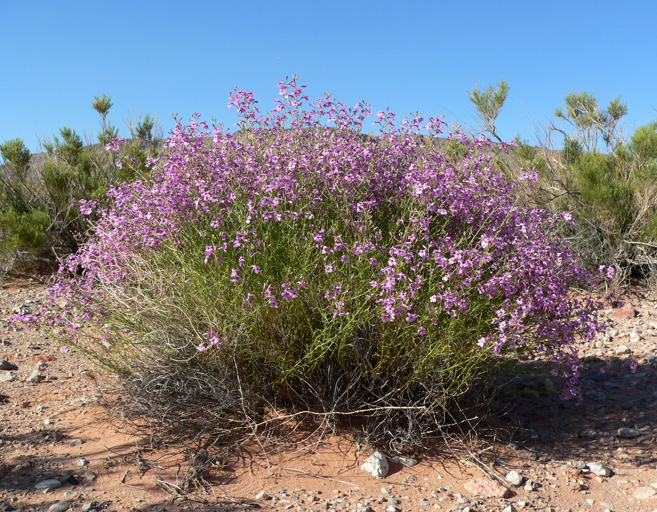 Penstemon ambiguus var. laevissimus in wash alongside the Calico Basin road near its junction with route 159, Red Rock Canyon, Spring Mountains, southern Nevada (elev. about 1100 m)